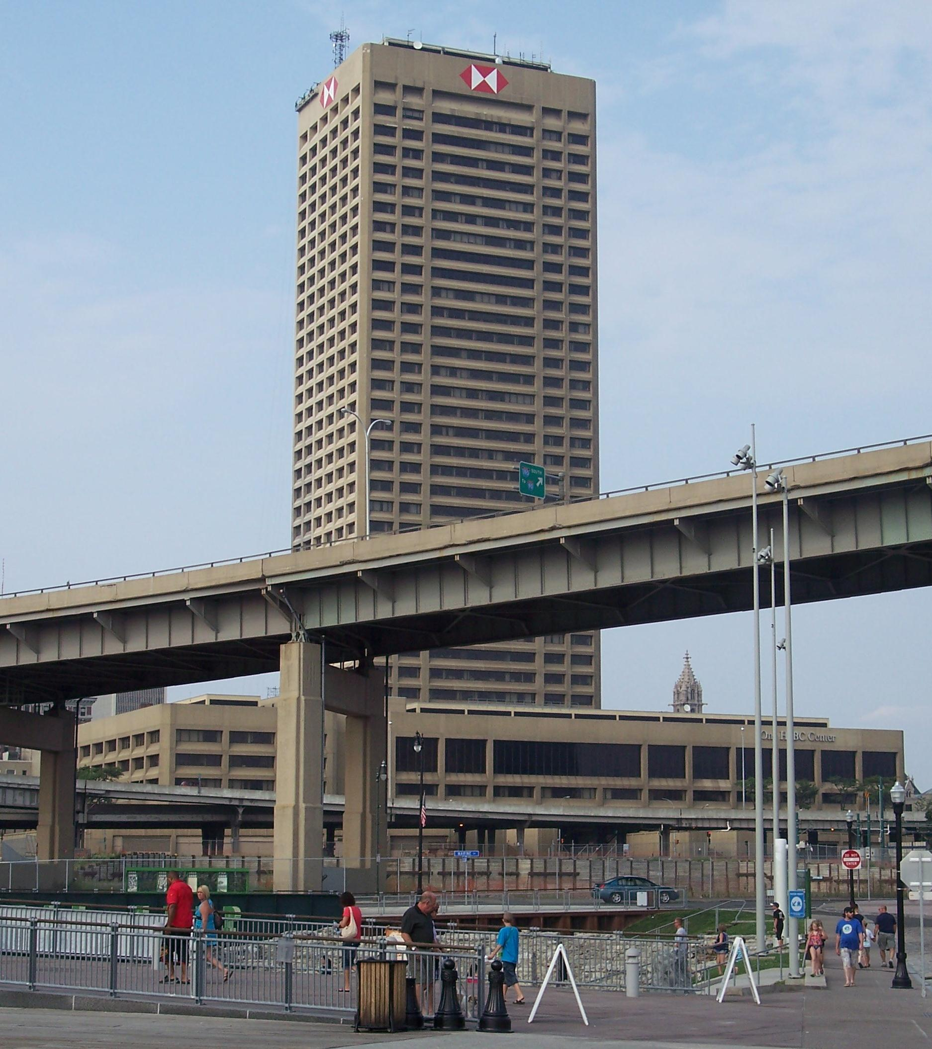 One HSBC Center, Buffalo New York